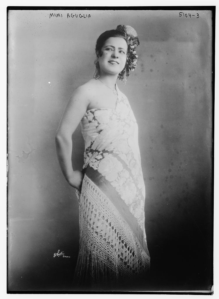 Mimi Aguglia in 1920